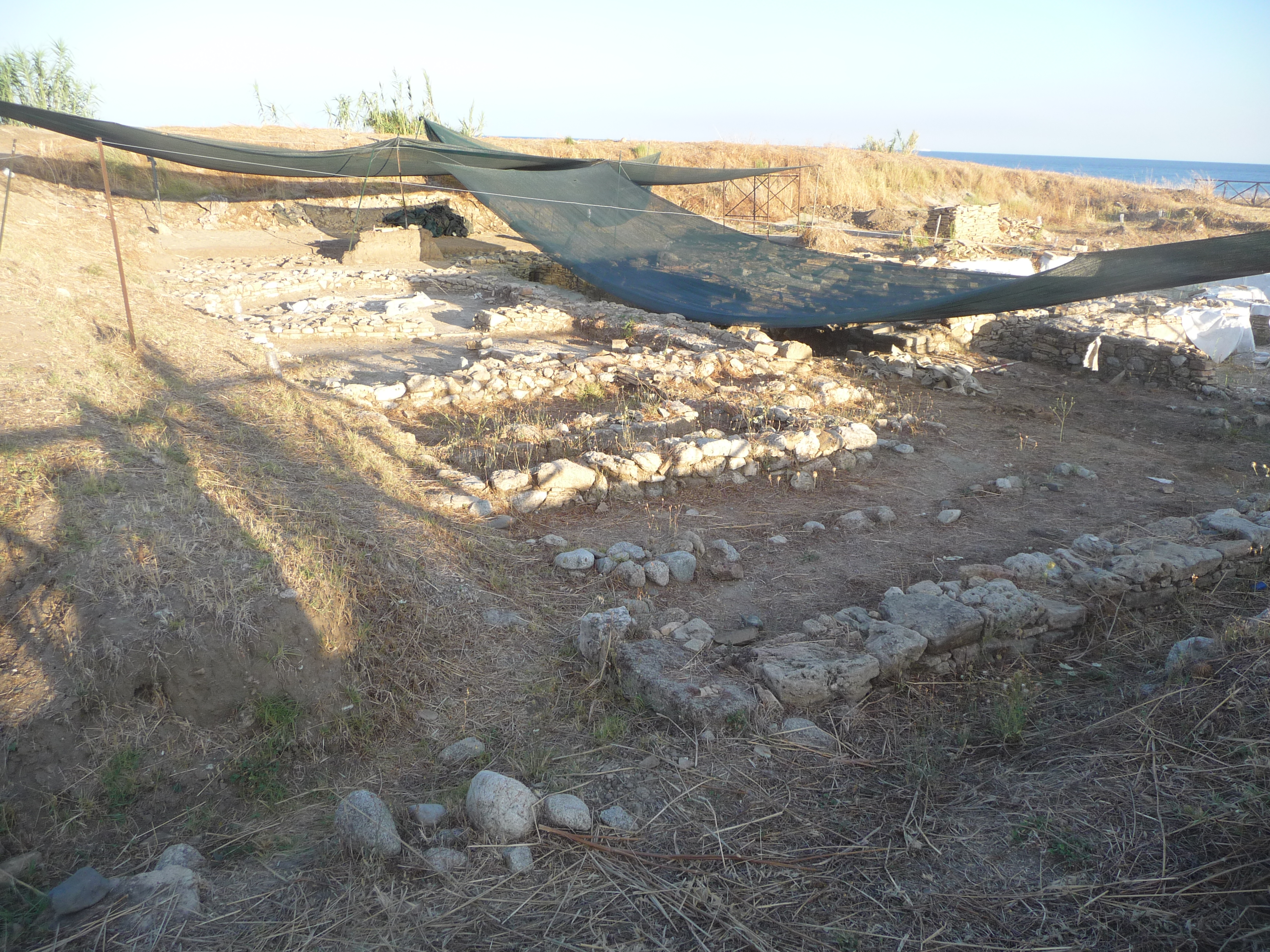 ruins of an ancient greek house in Monasterace (archeological area)